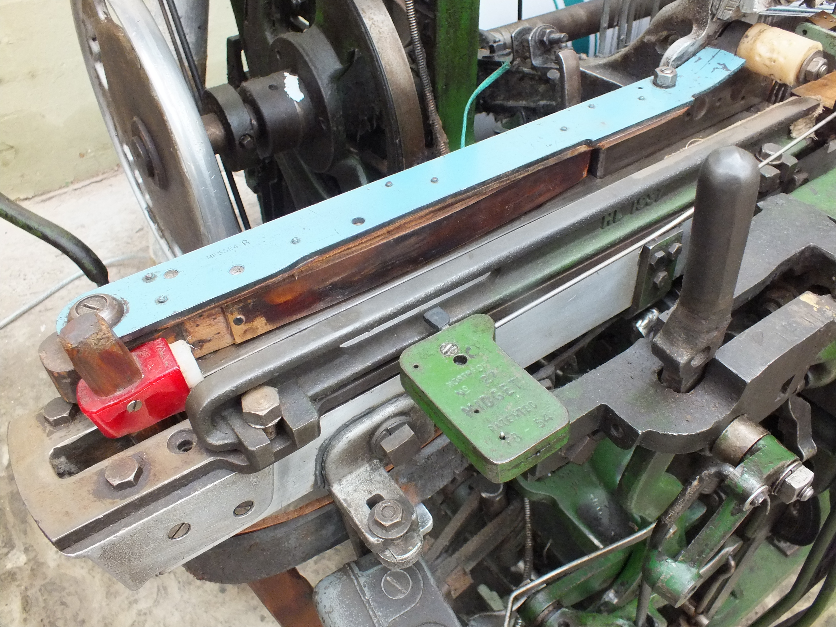 Queen Street Mill in Harle Syke, a suburb to the north-east of Burnley, Lancashire, was built in 1894 for the Queen Street Manufacturing Company. It closed on 12 March 1982 and was mothballed, but was subsequently taken over by Burnley Borough Council and used as a museum. In the 1990s ownership passed to Lancashire Museums. Unique in being the world's only surviving steam-driven weaving shed. The Northrop loom was invented in 1891 by James Henry Northrop who invented the self changing shuttle device. The model S has a dobby to control the main weave with a jacquarette to to handle the pattern in the green name band. The Leesona Unifil was first sold in 1958 is a high speed pirn winder where a depleted pirn is filled and replaced in the pirn rack. County Brook Mill